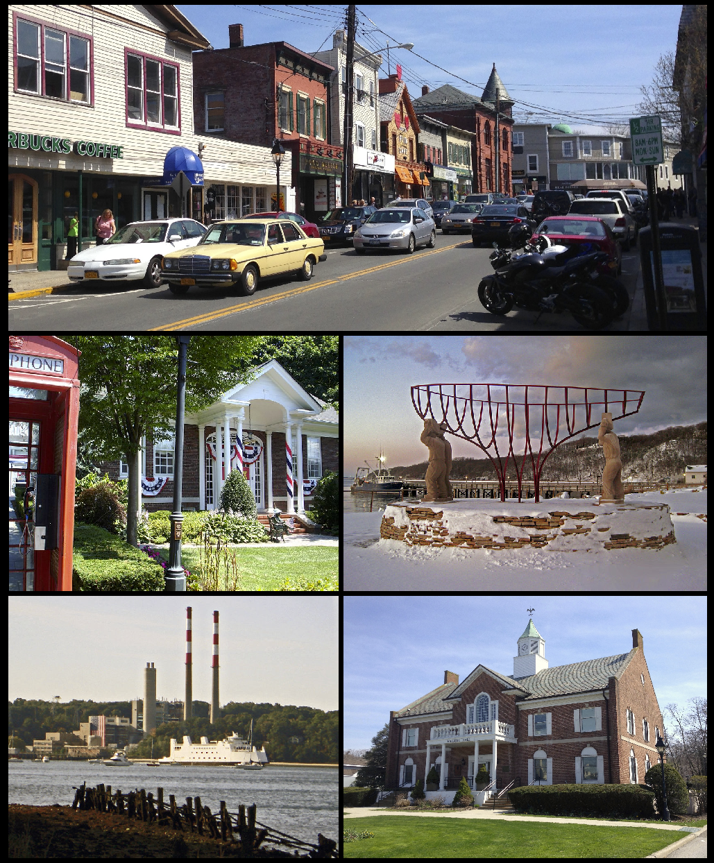 Montage of photos of Port Jefferson, NY